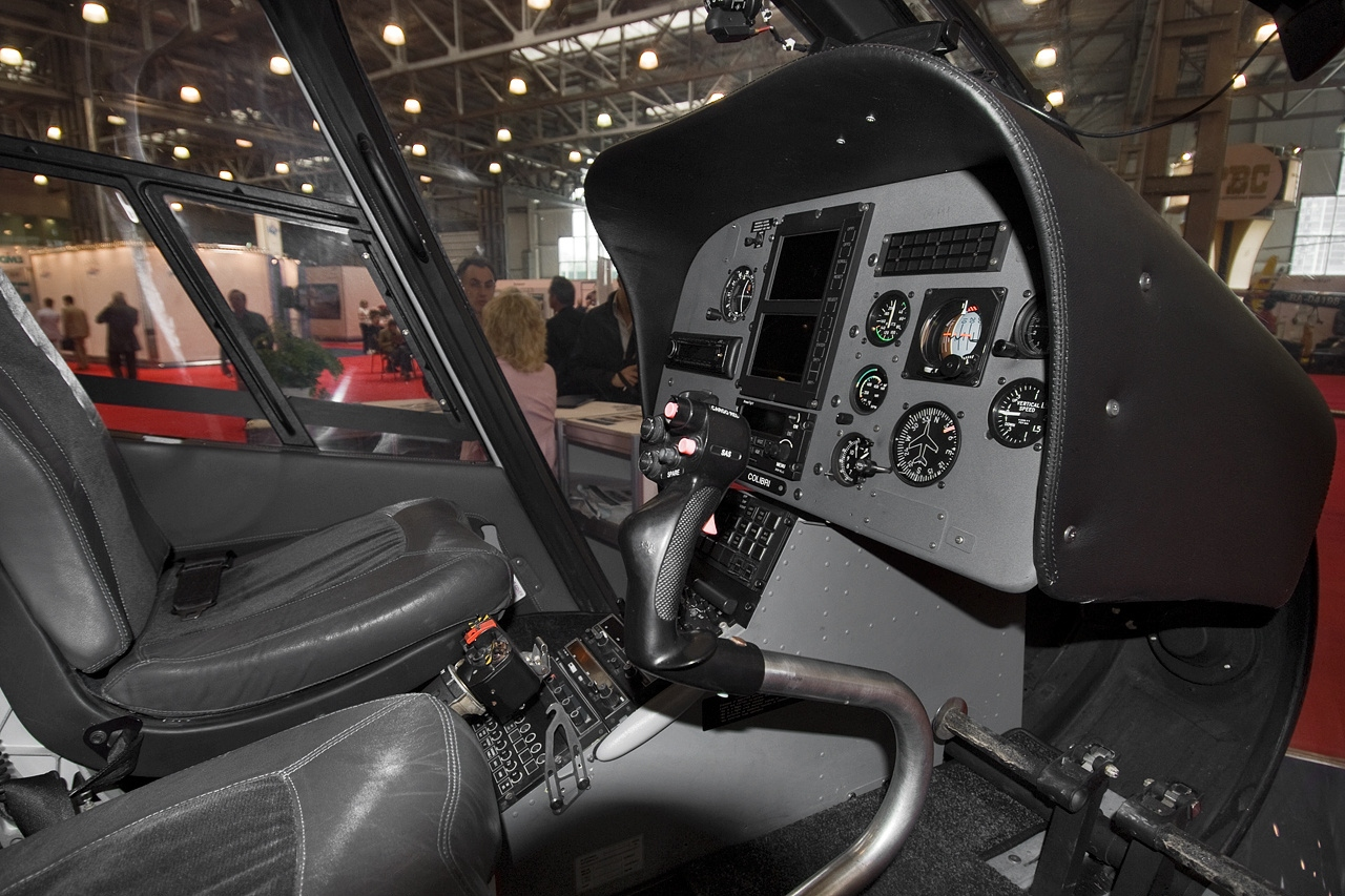 HeliRussia 2009